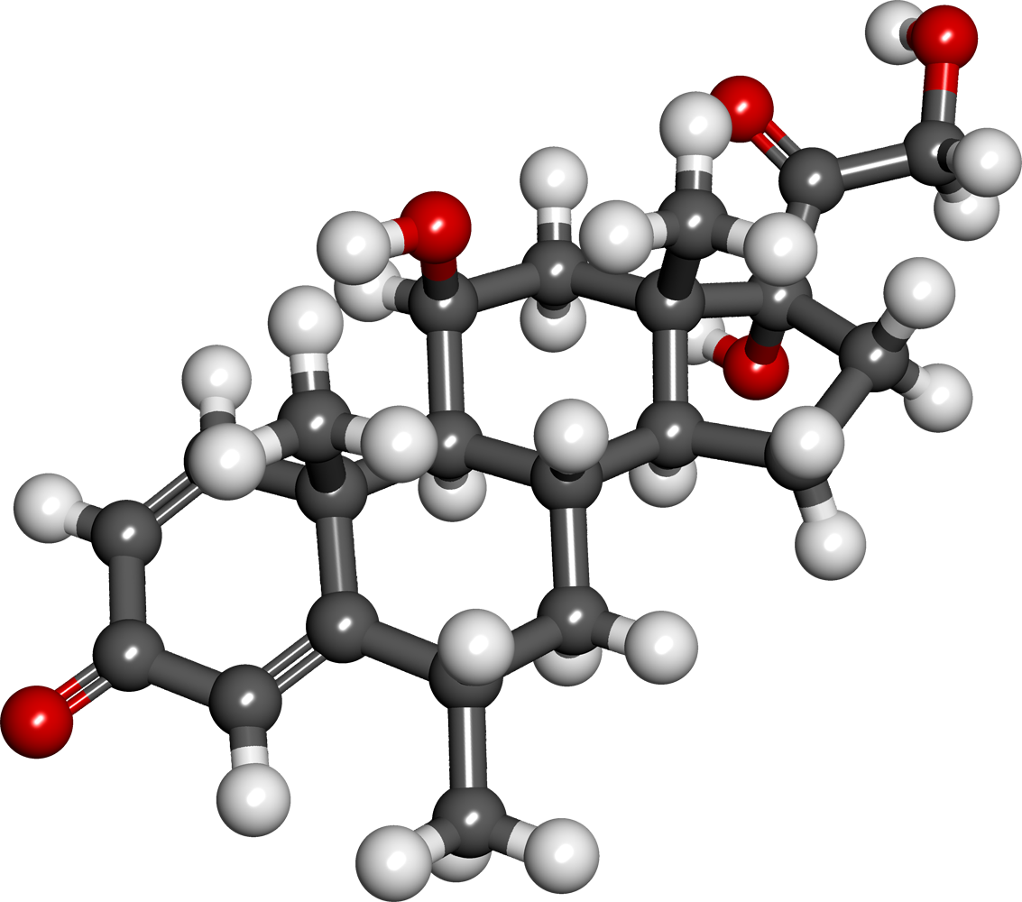 Ball-and-stick model of the anti-inflammatory drug methylprednisolone.